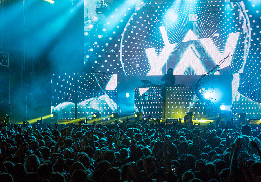 Alan Walker at the minor stage during Stavernfestivalen in Stavern on 08. July 2016. Lineup:Alan Olav Walker (electronic dance musician)